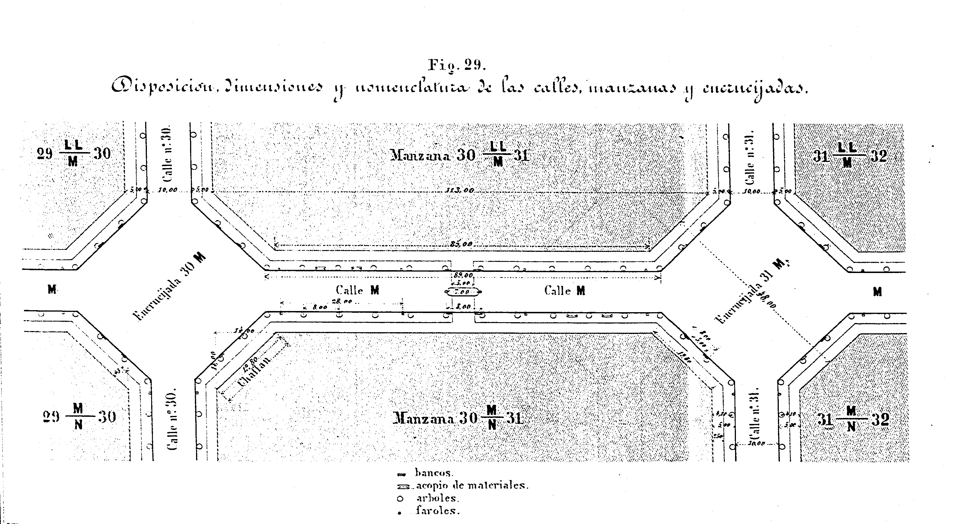 Eixample map of Barcelona. Map of crossing streets in "Pla Cerdà", 1859.